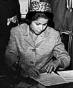 Image of Patricia Roberts Harris. Cropped version of image provided by the U.S. State Department. Caption (modified): Patricia Harris in her swearing in ceremony to be the U.S. Ambassador to Luxembourg. (cropped)